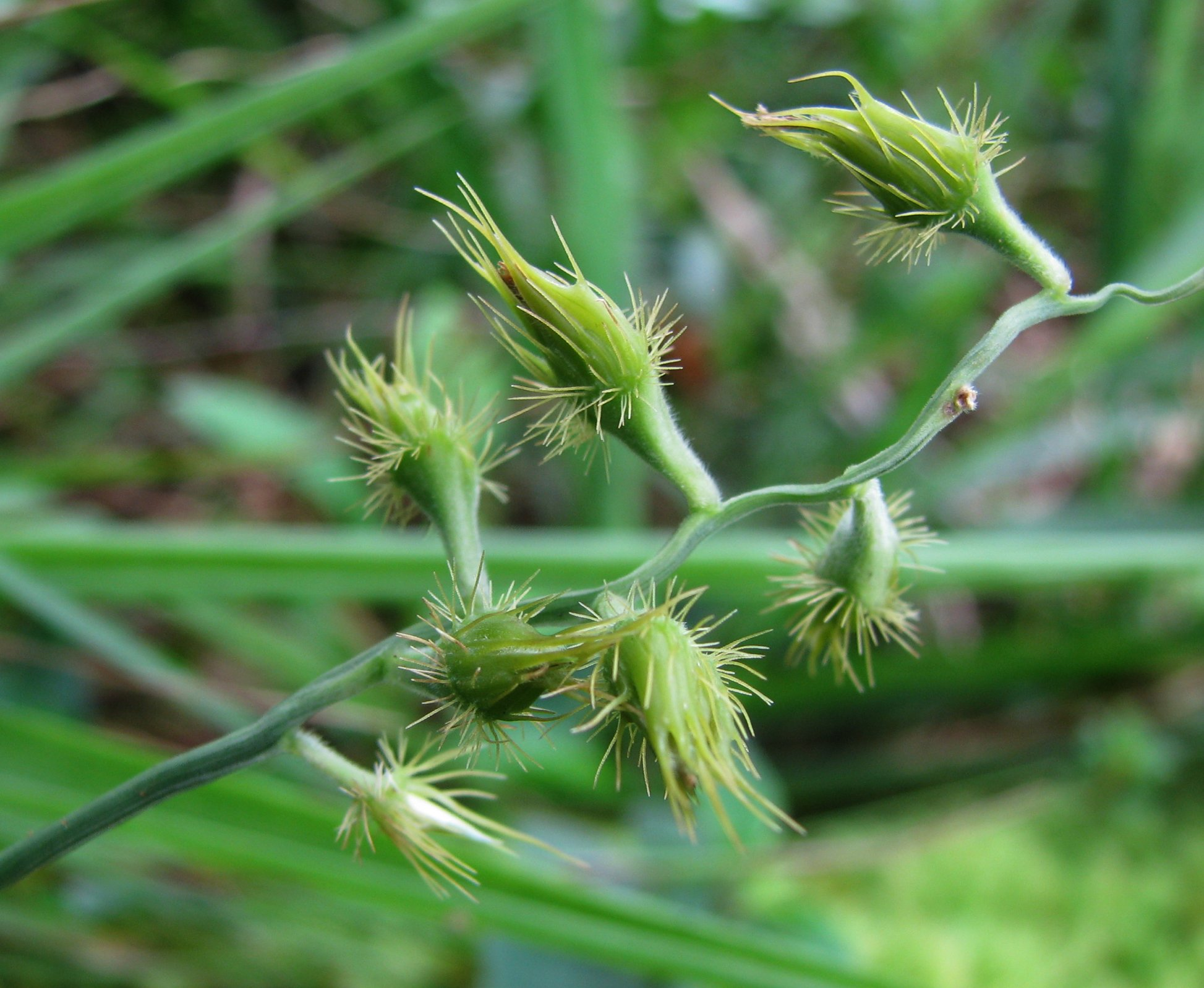 Kāmanomano, Kūmanomano, Agrimony sandbur, or Sandbur Poaceae (Gramineae) Endemic to the Hawaiian Islands Endangered Oʻahu (Cultivated) Green fruits.